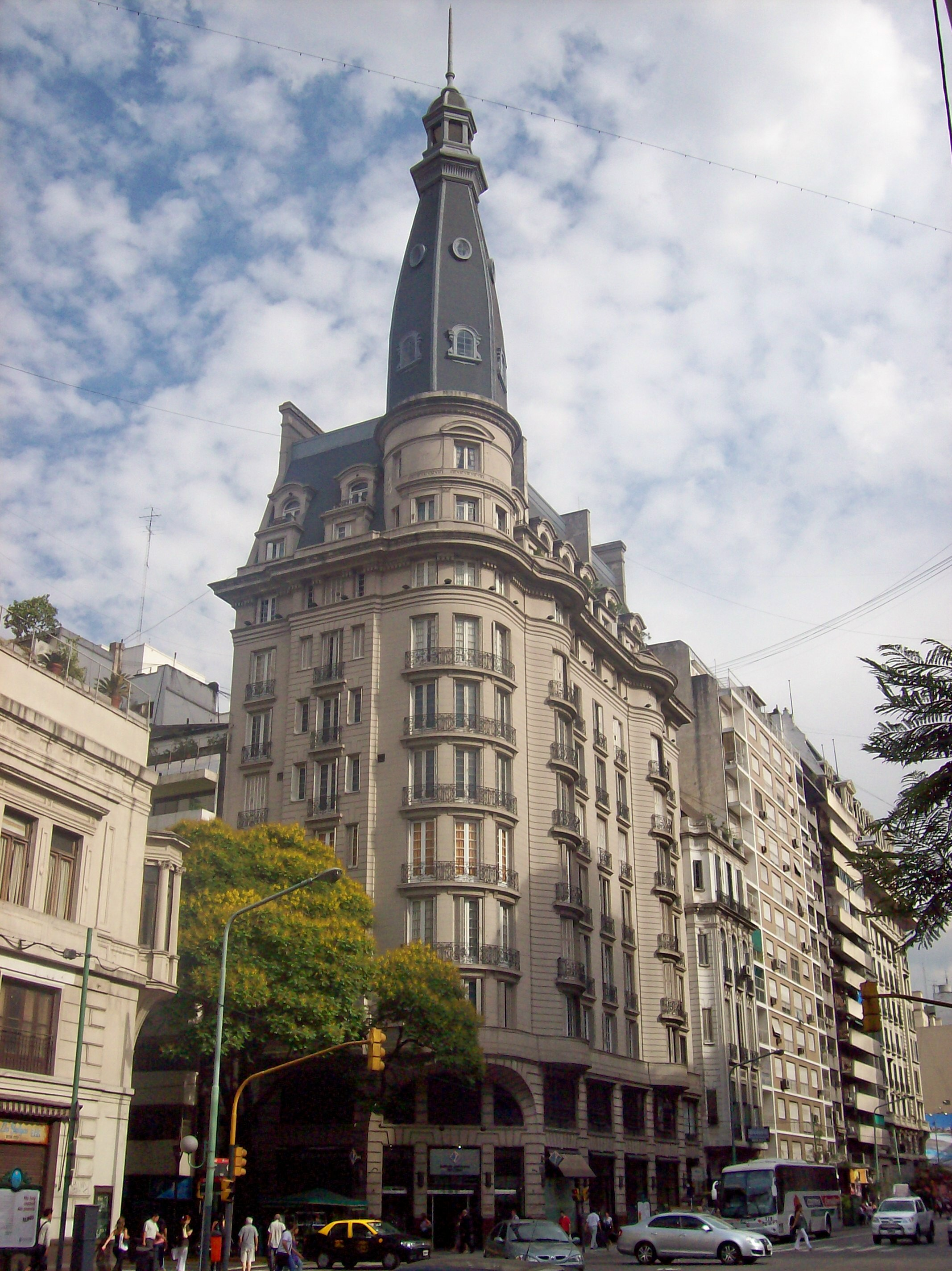 Residential building on Callao 499, Buenos Aires. Designed by Oscar Schoo Lastra and completed in 1924, its 10th story dome is one of the most photographed in the city.